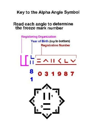 The International Alpha Angle System.